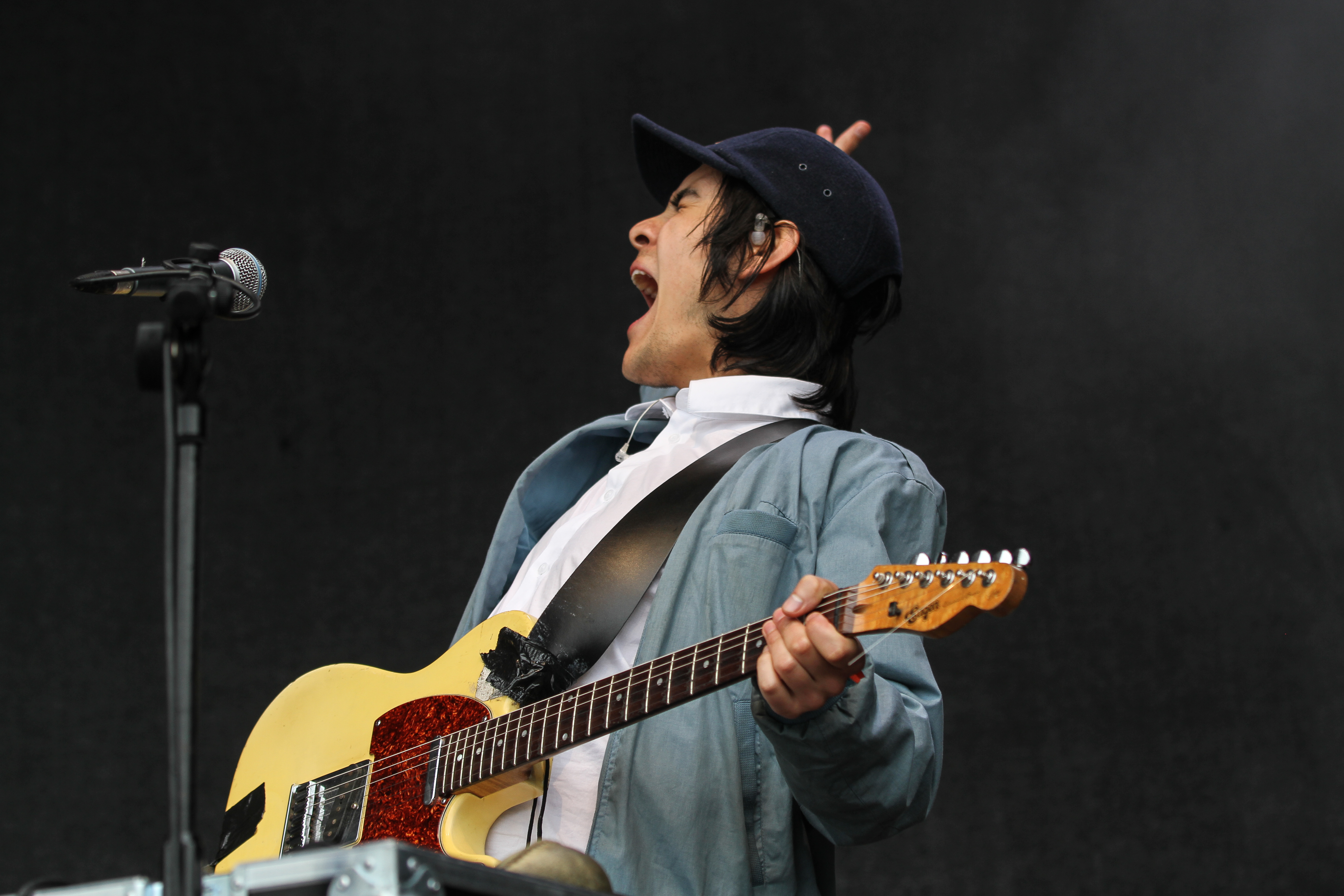 Festivalsommer This photo was created with the support of donations to Wikimedia Deutschland in the context of the CPB project "Festival Summer".